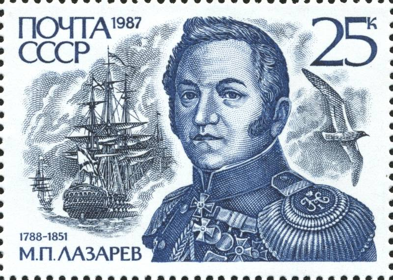 A USSR stamp, 25k indigo, Admiral Lazarev, Michel 5783, Scott 5623d